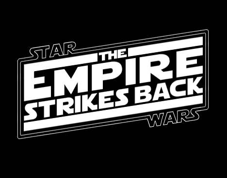 Another own made logo of Empire Strikes Back, made from zero in photoshop cs5